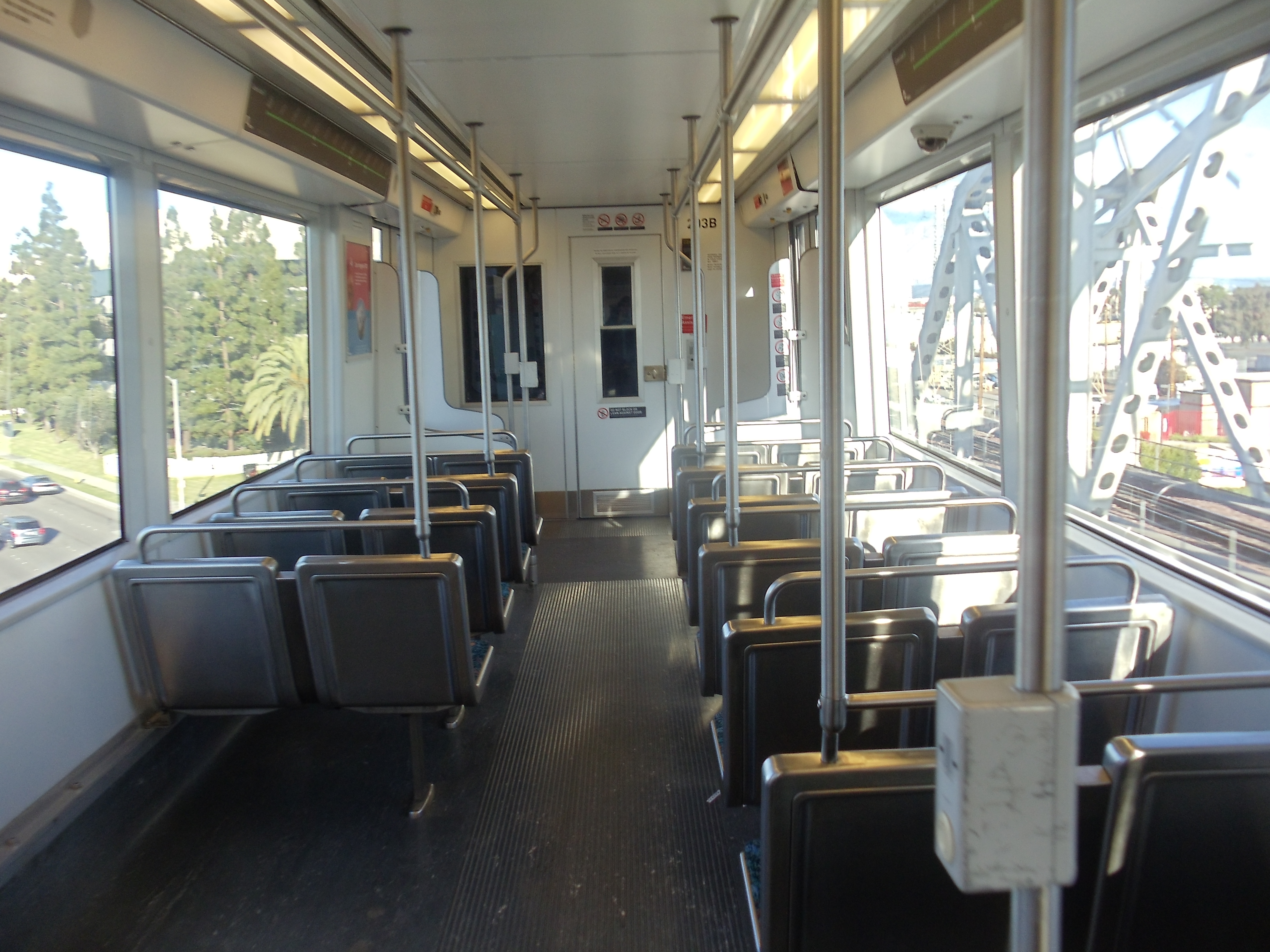 Interior of a Siemens P2000 Light Rail Vehicle on the Metro Green Line.